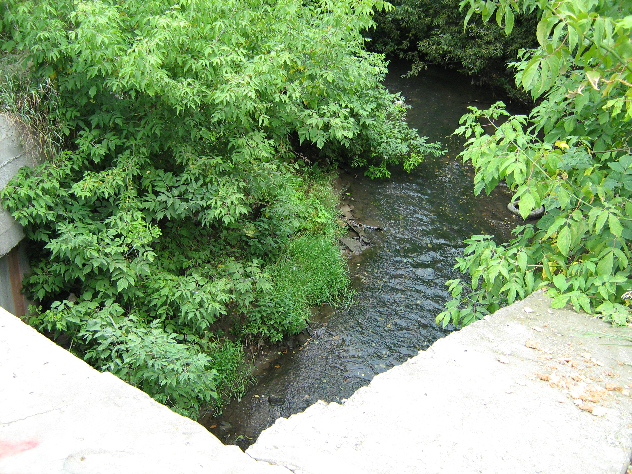 Perm. Danilikha River under Plekhanov Street.